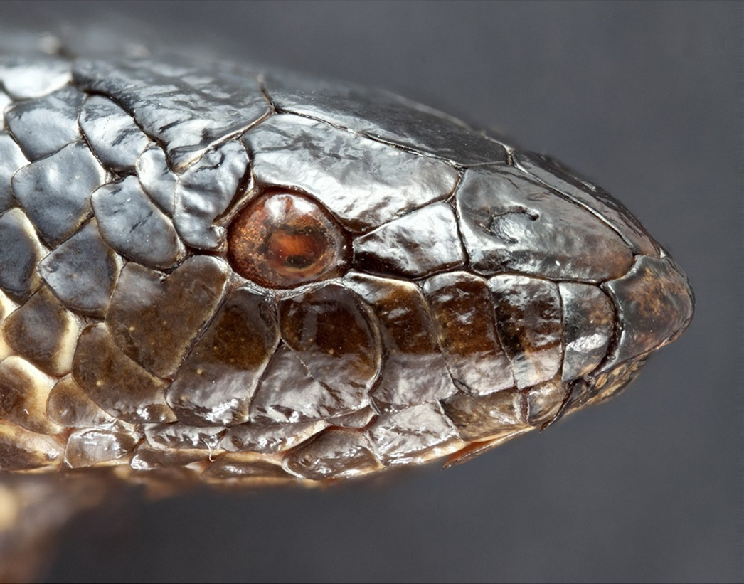 Aipysurus apraefrontalis specimen (SAMA R68142) from Ashmore Reef, Australia